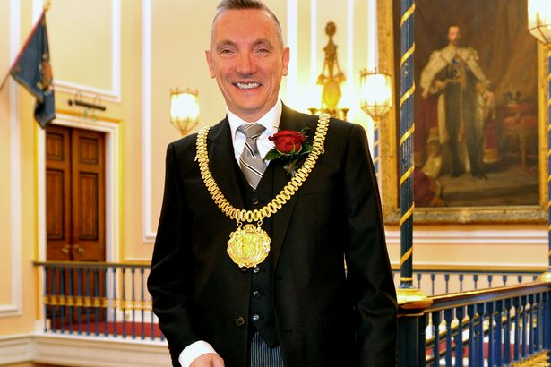 Openly gay Lord Mayor of Liverpool, Cllr Gary Millar, is sworn in at Liverpool Town Hall (22 May 2013)